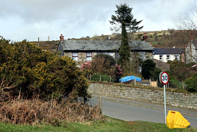 Darite Looking north across the village to the higher heathlands above.